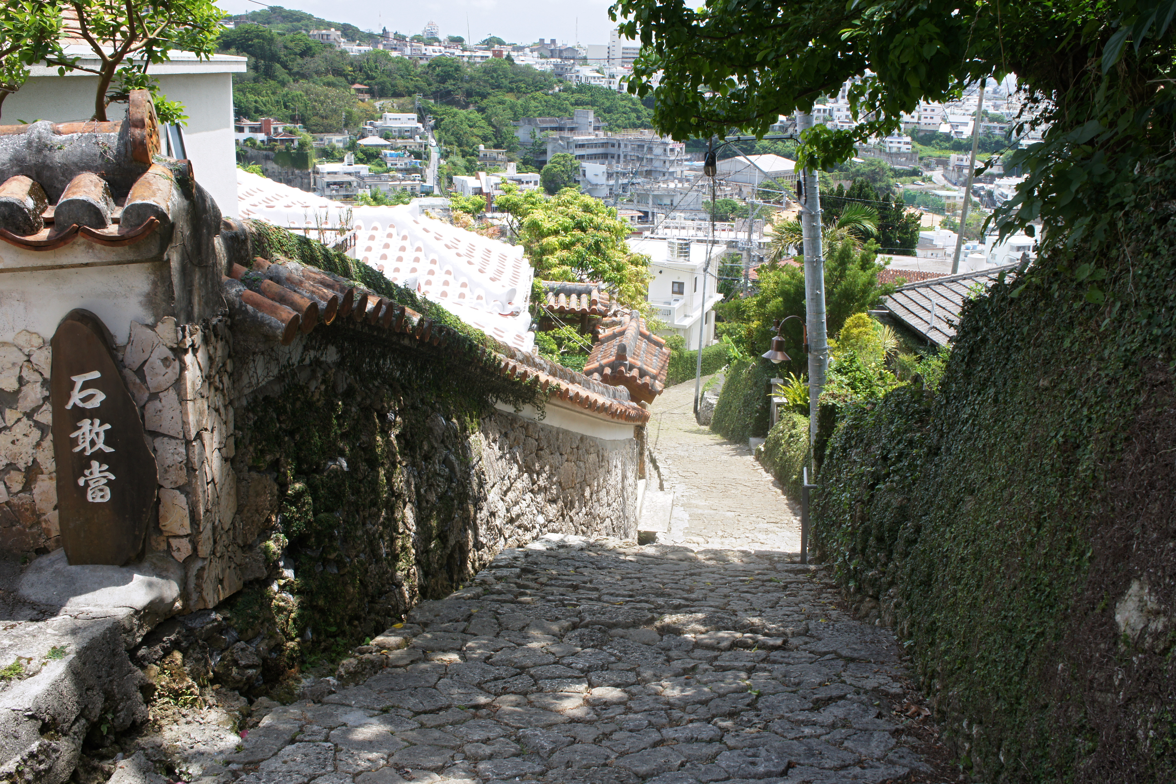 Shuri Kinjocho-ishidatami-michi in Naha, Okinawa prefecture, Japan